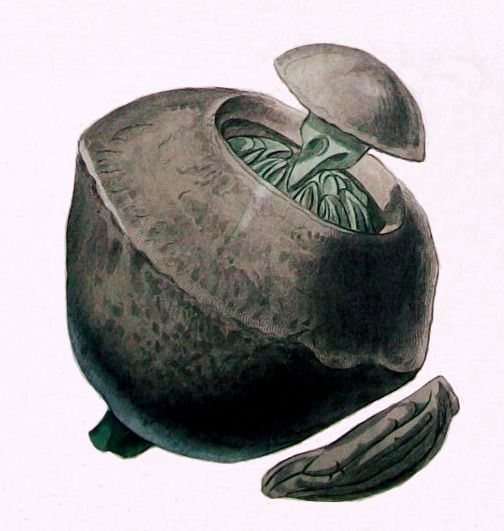 Painting of Lecythis zabucajo from "A History of the Vegetable Kingdom" by William Rhind (published in London by Blackie & Son, 1874). Walter Hood Fitch supplied most of the illustrations for this work.